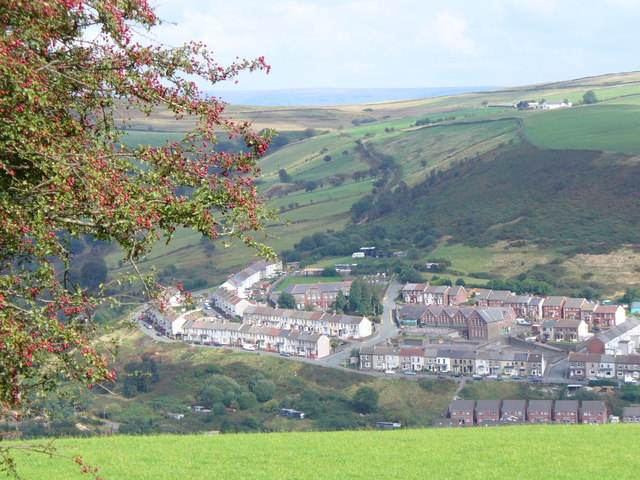 Head of the Valley, Senghenydd. The former miners' row down in the valley below is lined on both sides by newer housing. Hill farms occupy the hill tops.